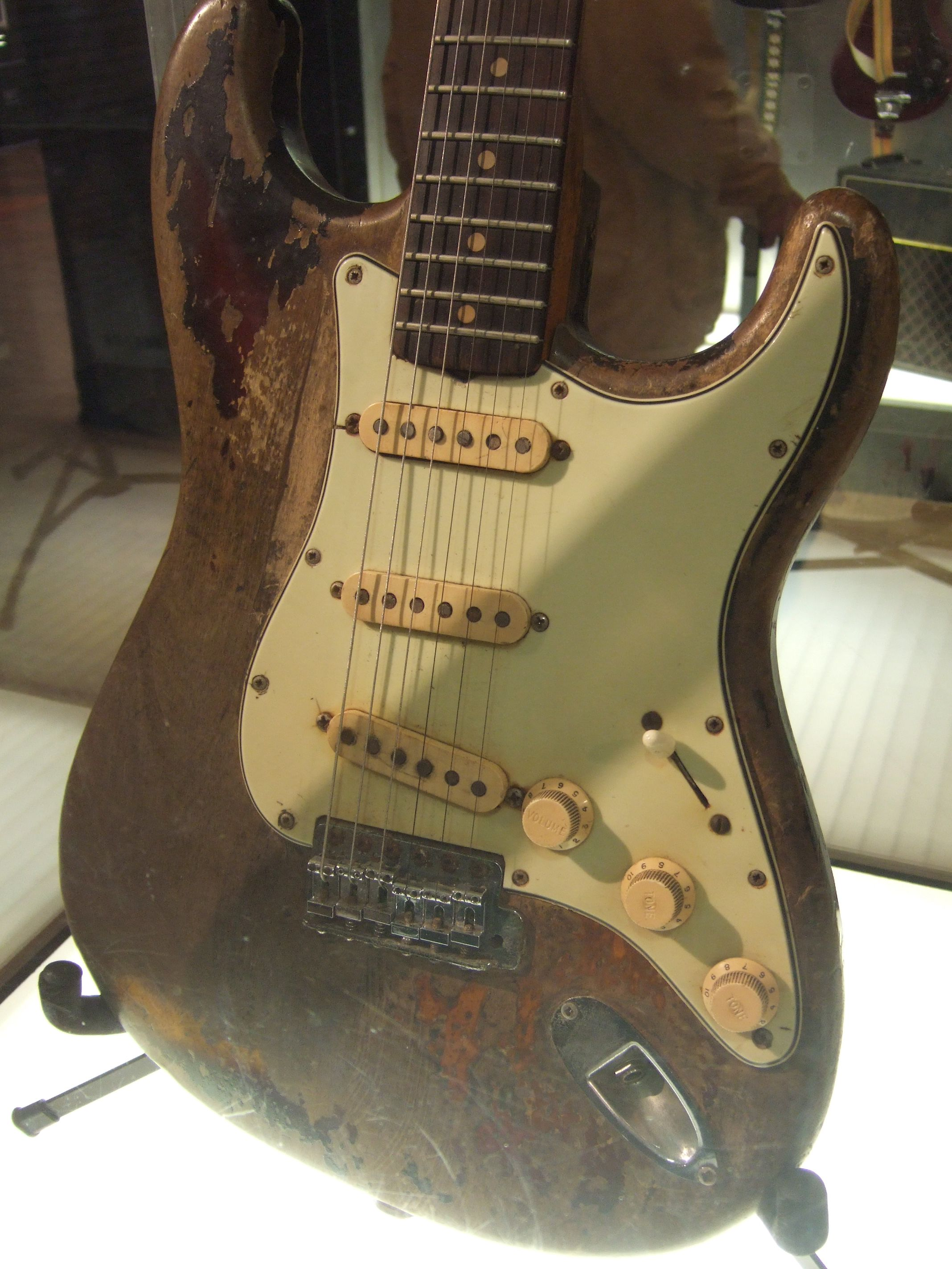 Rory Gallagher's Battered Strat. Taken at 'Born to Rock' exhibition at Harrods